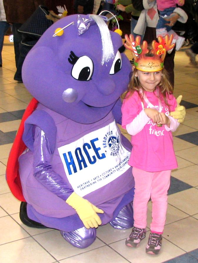 Millie, once mascot of the City of Brampton, Ontario, Canada, she is now the